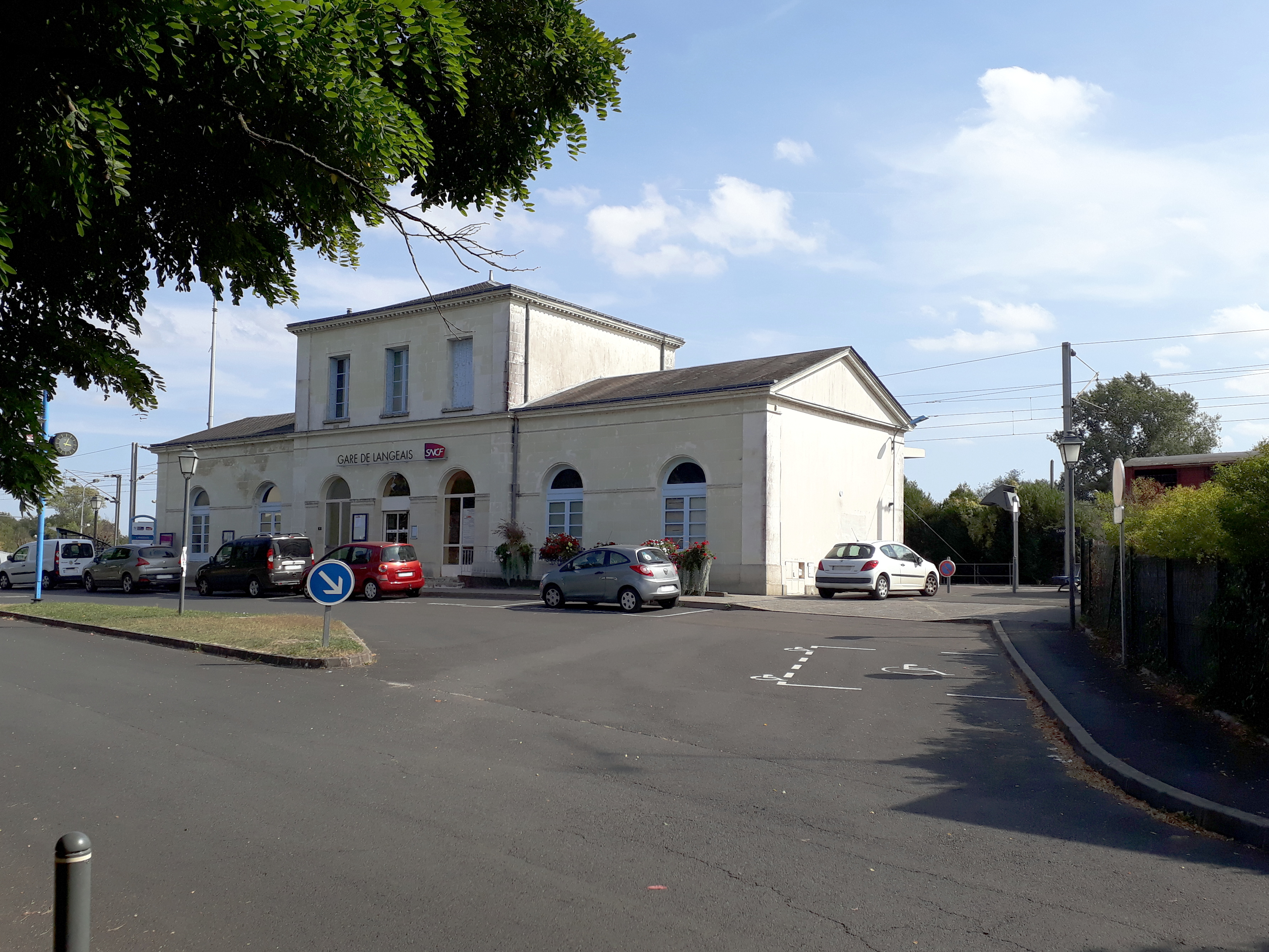 Langeais train station (Indre-et-Loire, France)